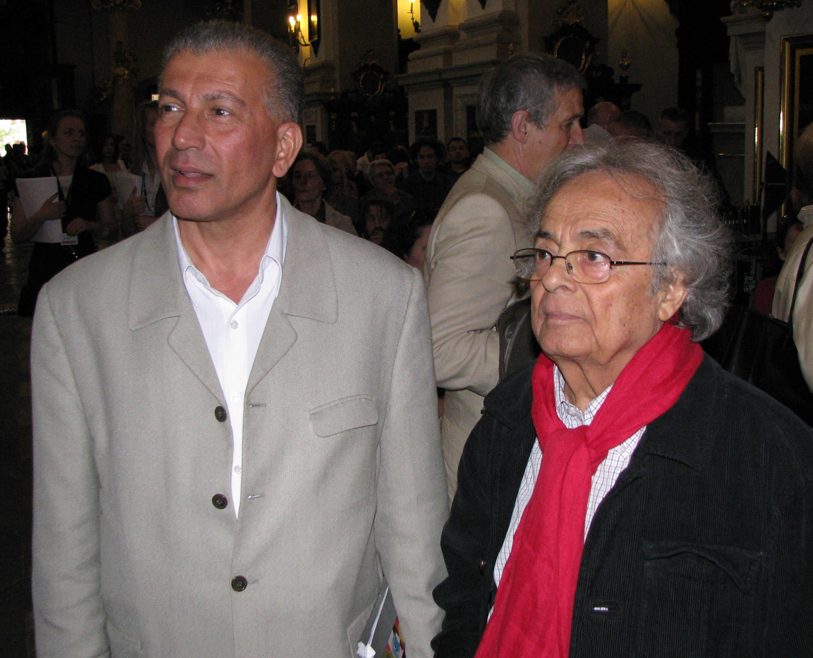 Adonis (Ali Ahmad Said Esber, born 1 January 1930), is a Syrian poet, essayist, and translator. He lives in France; And Hatif Janabi (b. 1952) is an Iraqi poet, translator and author. He lives in Warsaw, Poland.